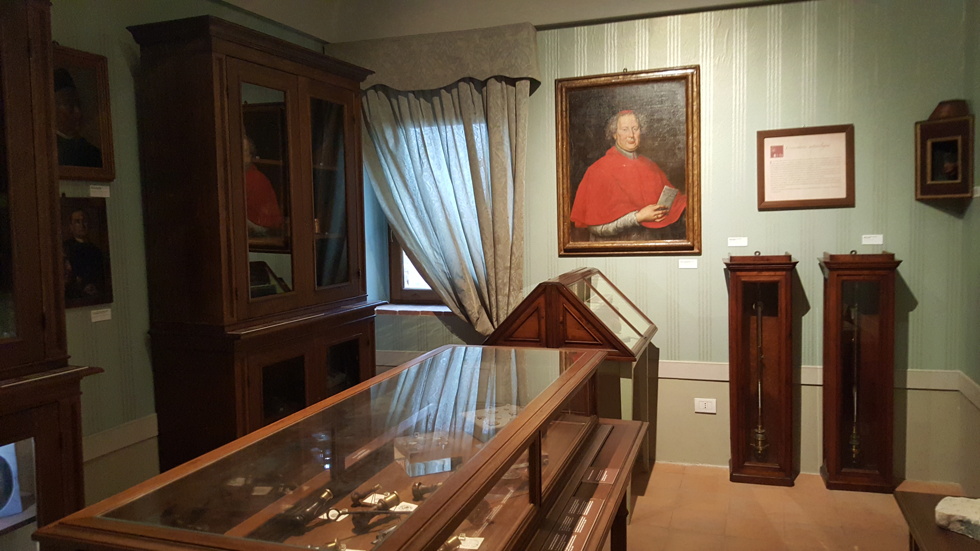 This is a photo of a monument which is part of cultural heritage of Italy.